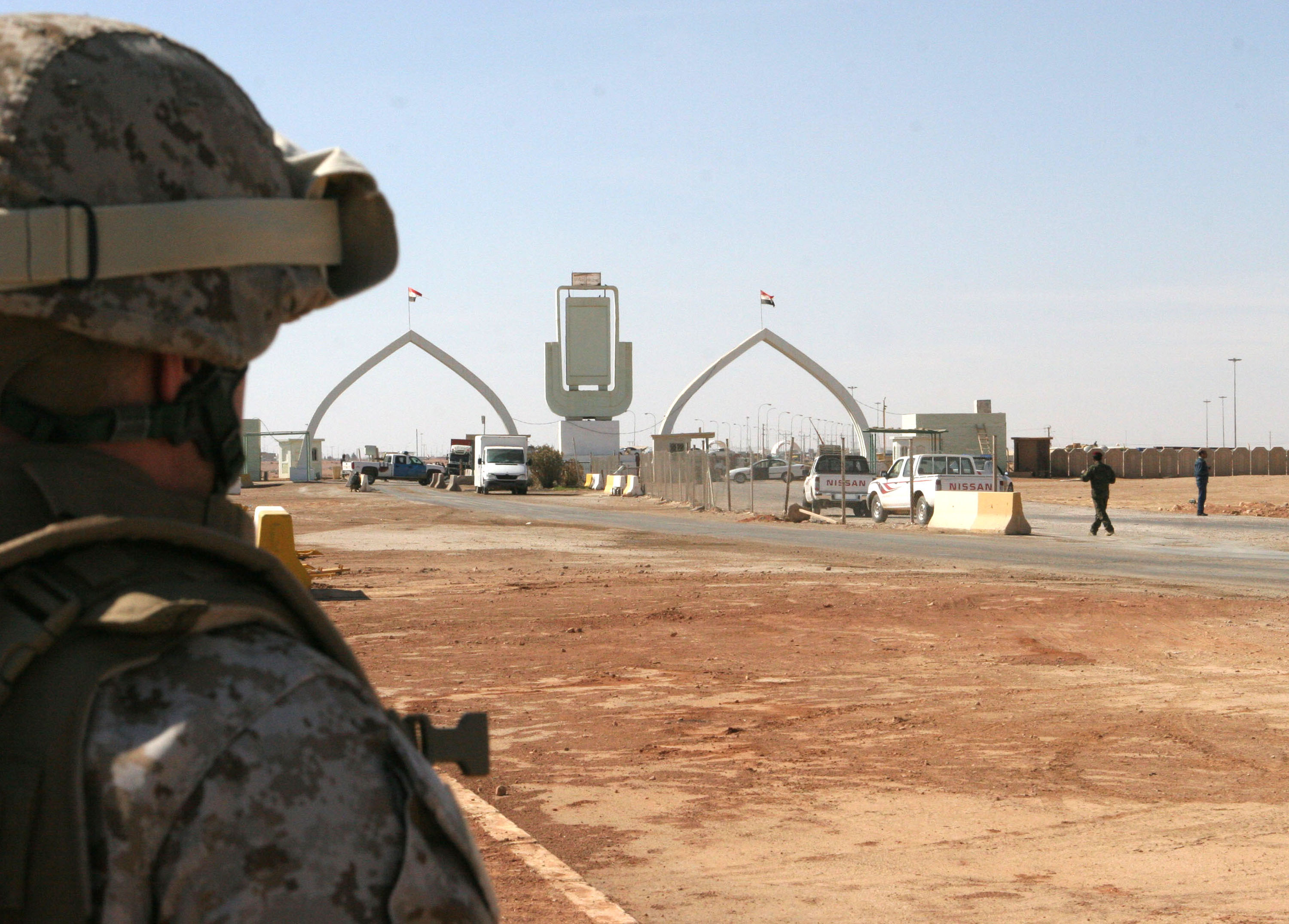 A Marine with Multi National Force-West gazes at the arches marking the border between Iraq and Jordan while visiting the Port of Entry Trebil in Iraq's western Al Anbar province, Feb. 12, 2009. A group of MNF-W Marines, including the deputy commanding general of MNF-W, Brig. Gen. John E. Wissler, visited the port of entry to monitor the progress of local Iraqi security forces charged with guarding the border between Iraq and Jordan.